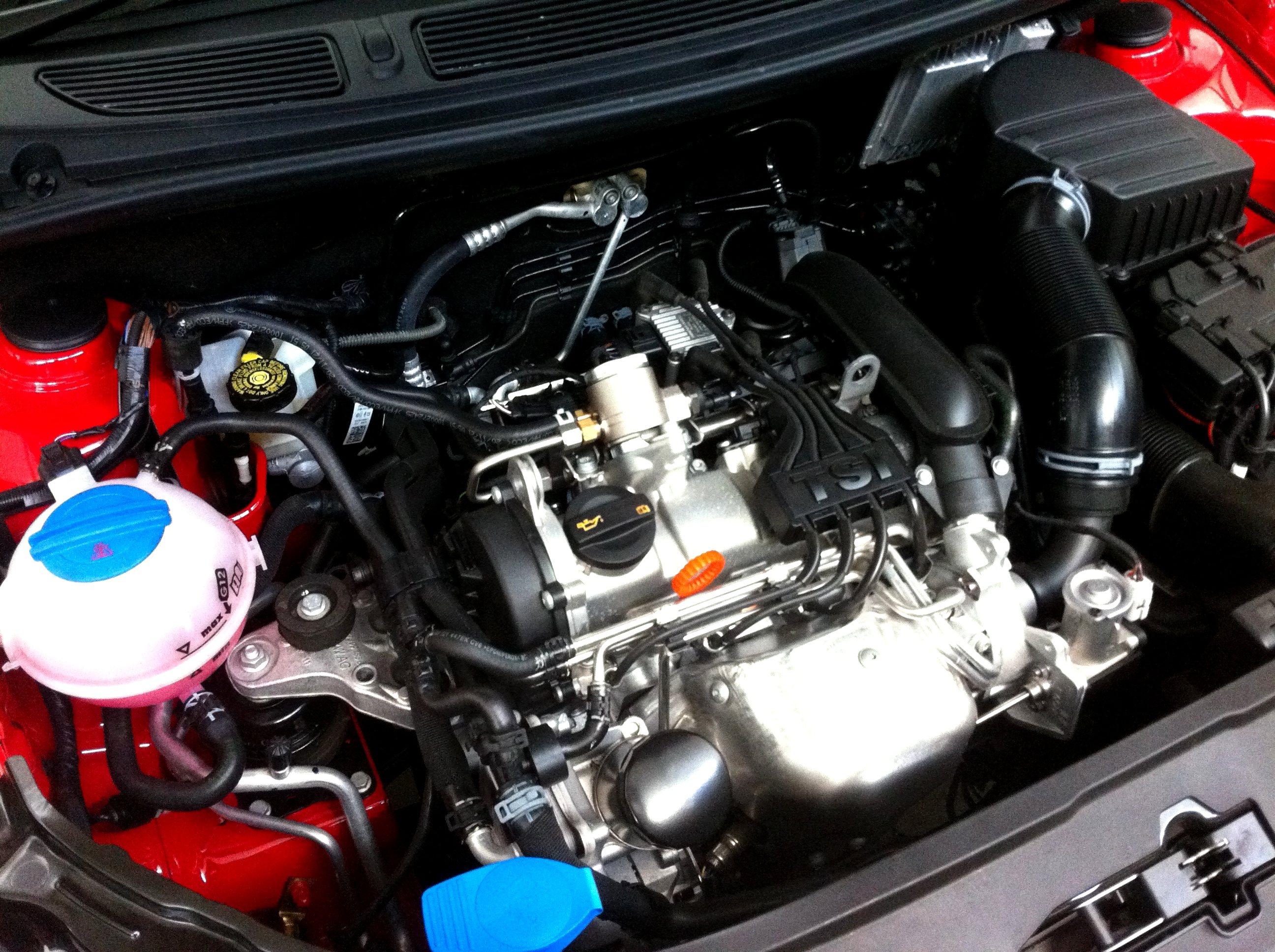 2011 Škoda Fabia (5JF) 77TSI hatchback, photographed in New South Wales, Australia.